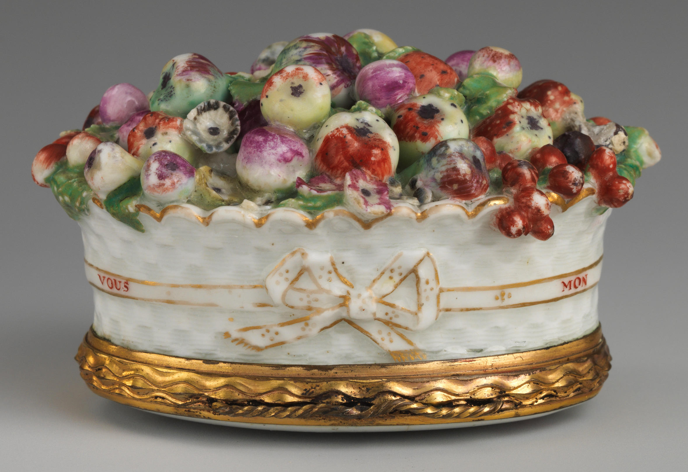 British, Chelsea; Toy; Ceramics-Porcelain